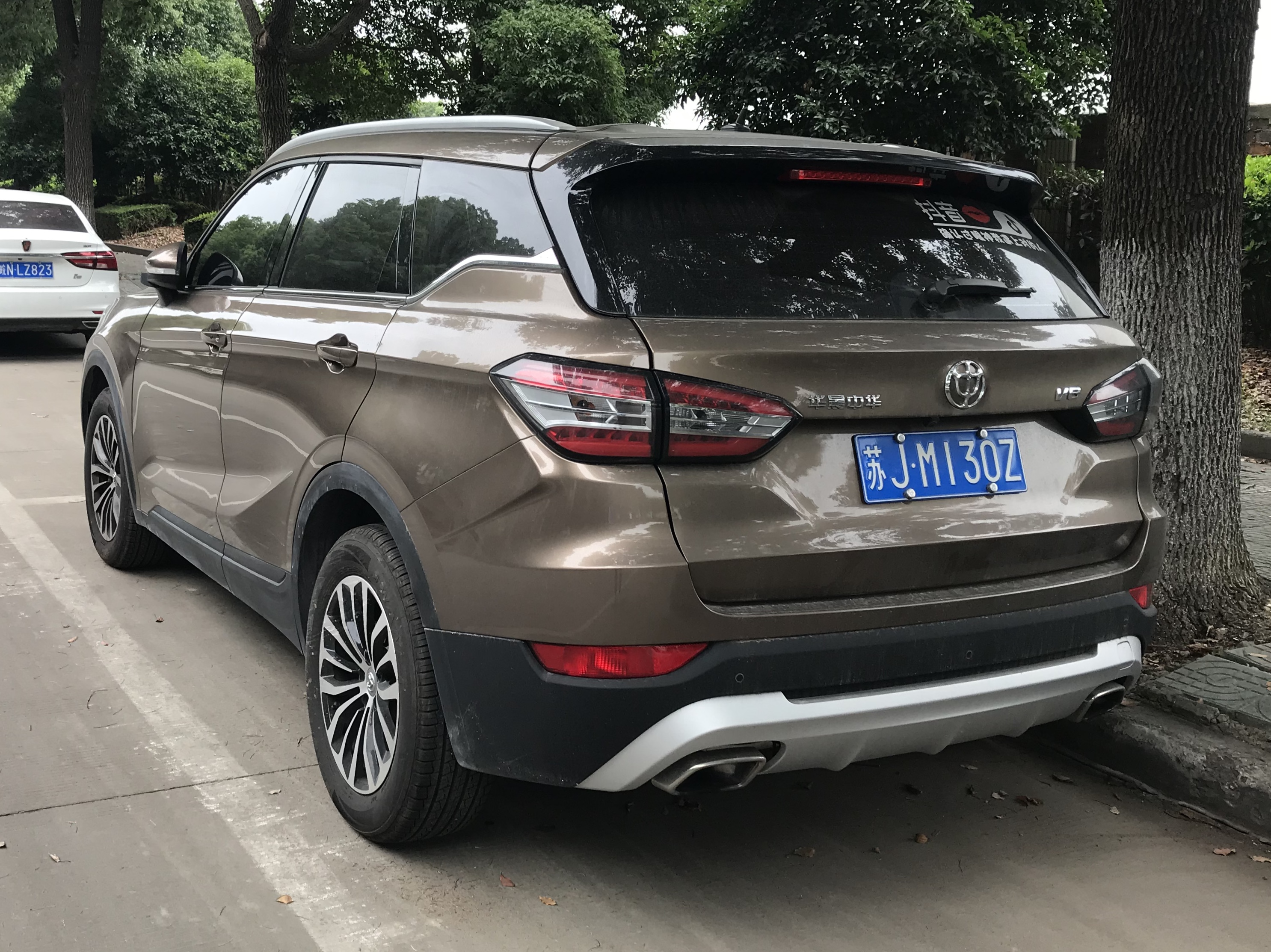 Brilliance V6